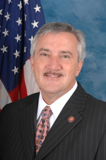 Photo of Congressman Travis W. Childers